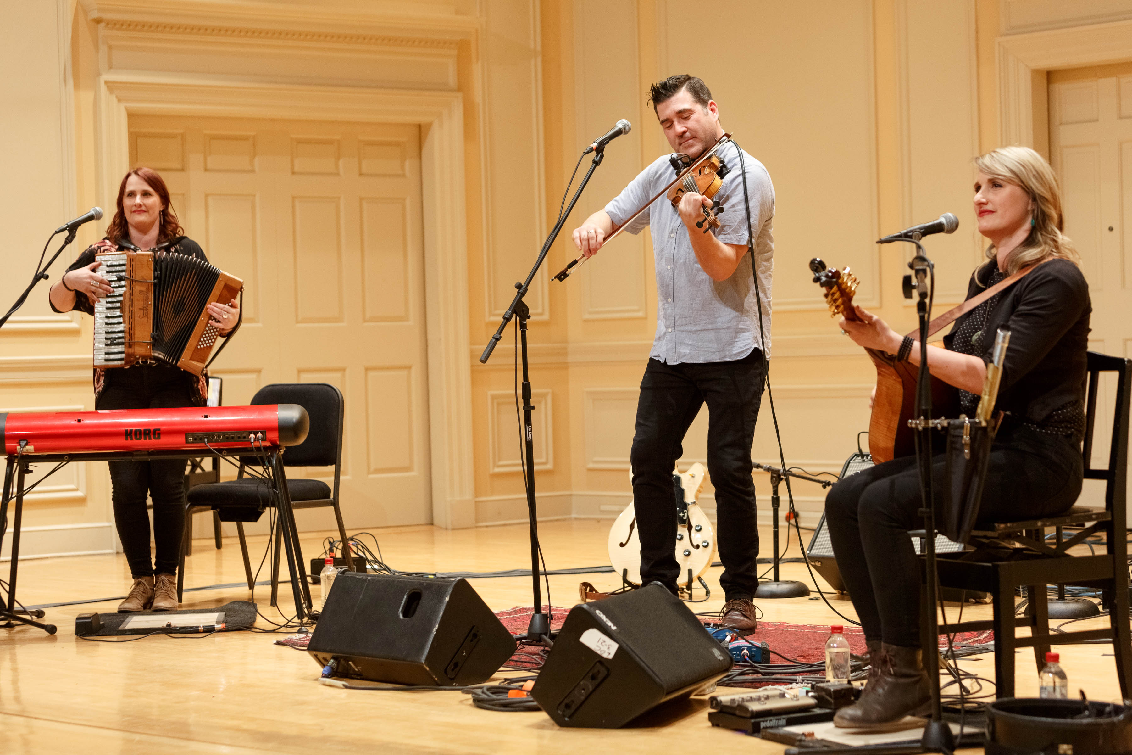 Acdian band Vishten plays Canadian music with French and Celtic roots during a Homegrown Concert Series performance, March 21, 2019. Photo by Shawn Miller/Library of Congress. Note: Privacy and publicity rights for individuals depicted may apply.